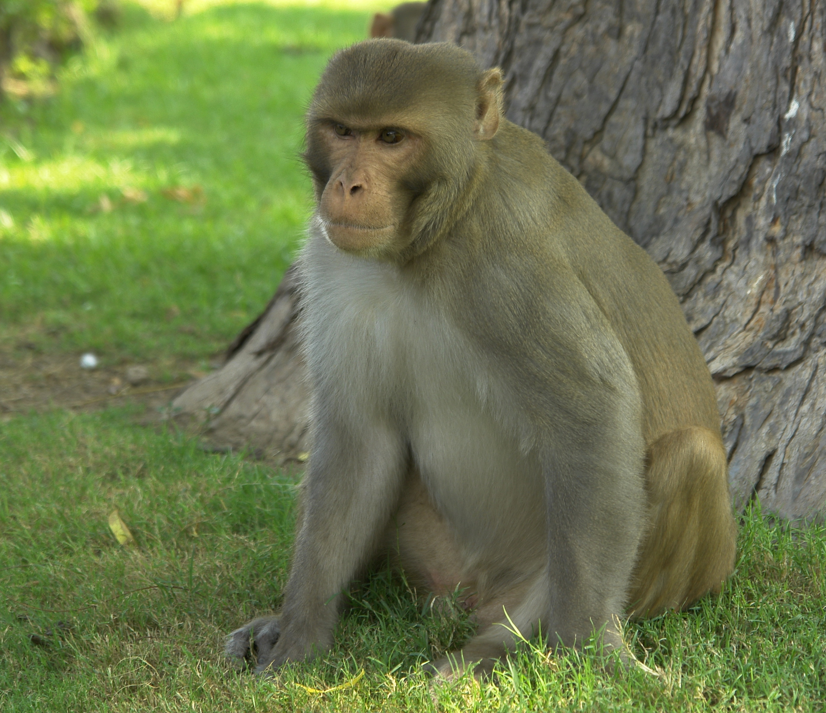 Rhesus Macaque, Red Fort, Agra, India.